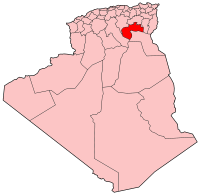 Map of Algeria showing Biskra province